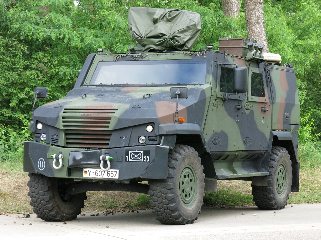 Mowag Eagle V of German Army with tarped weapon station, Field Marshal Rommel Barracks, Augustdorf 2017